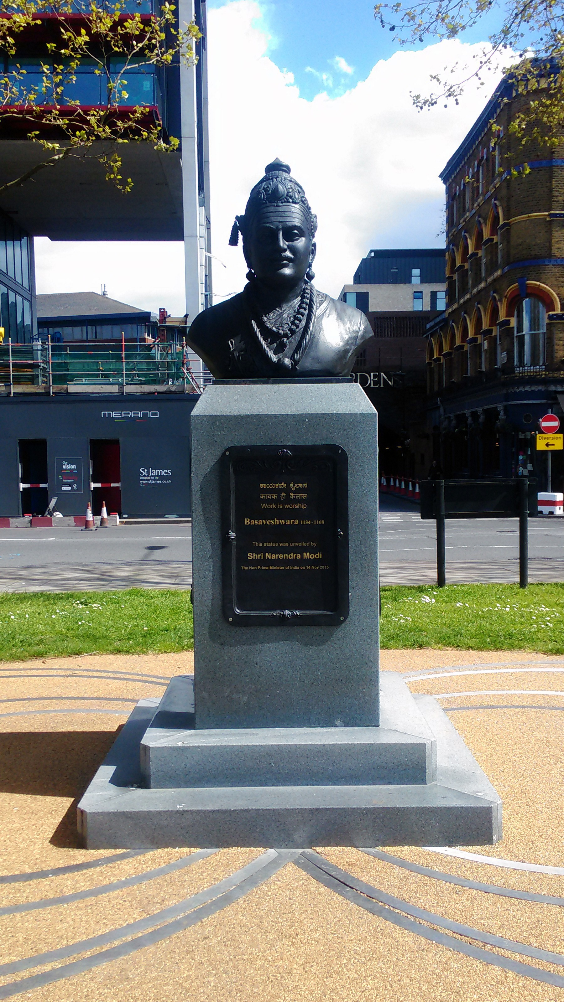 Basaveshwara bust on Albert Embankment